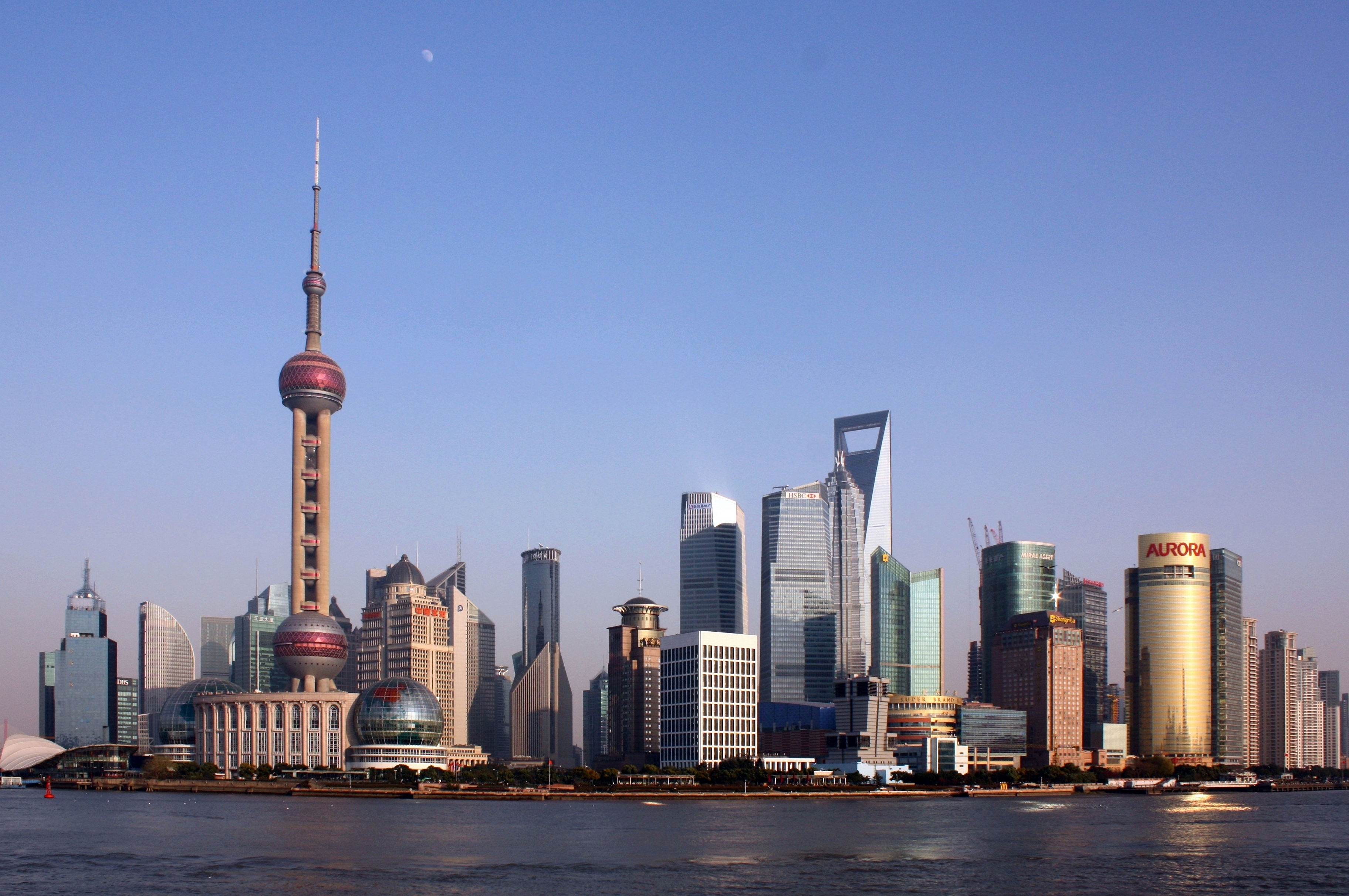 Pudong, Shangai, China.